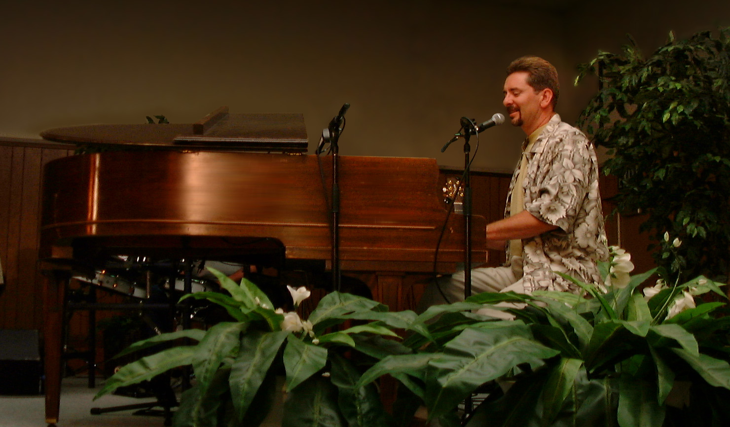 Dennis Jernigan in concert at Woodland, California